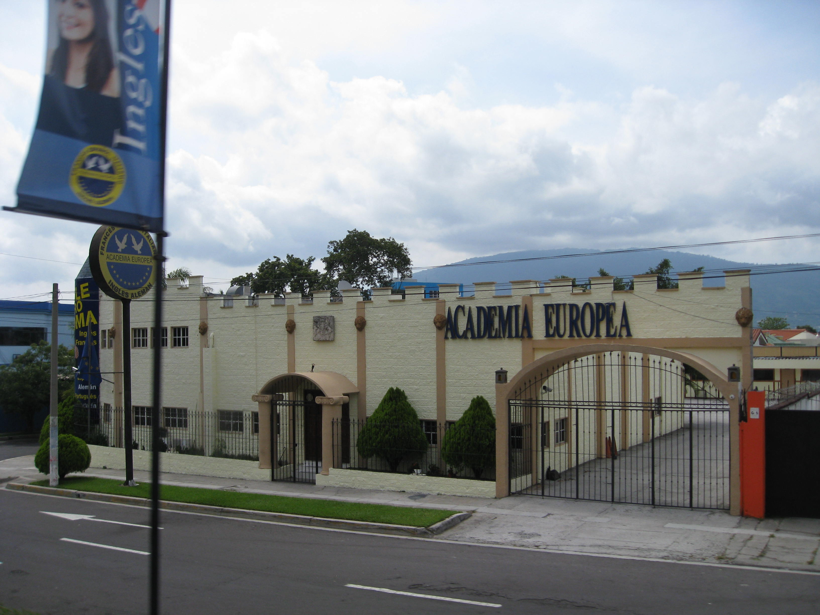 European Academy, founded by the European Nation. A center for anyone who wants to learn the official languages of the European Union (English, Spanish, Italian, French, German, etc.)